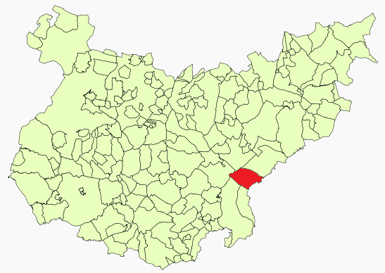 Peraleda del Zaucejo